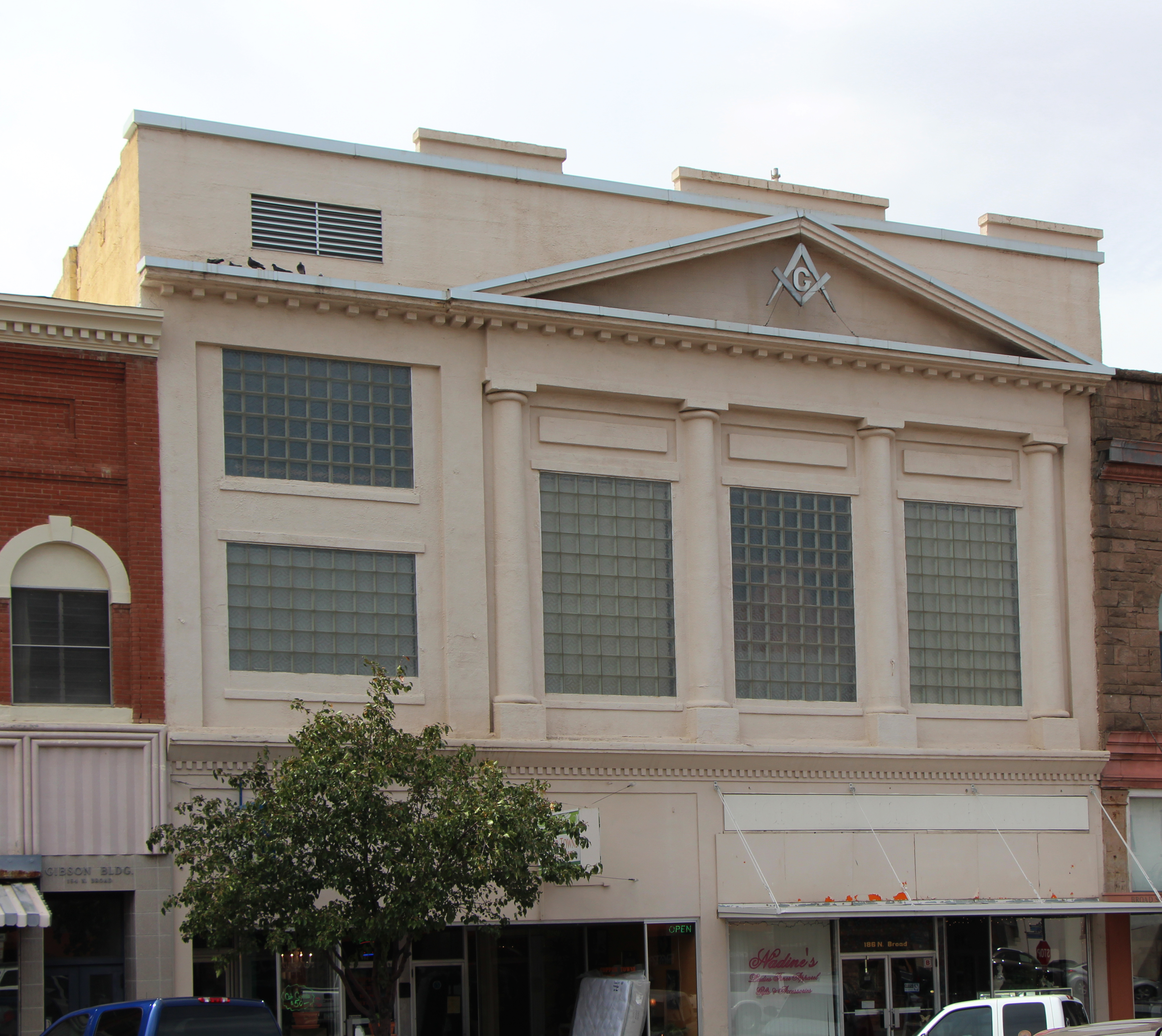 Masonic Temple/Hanna Building, Broad Street